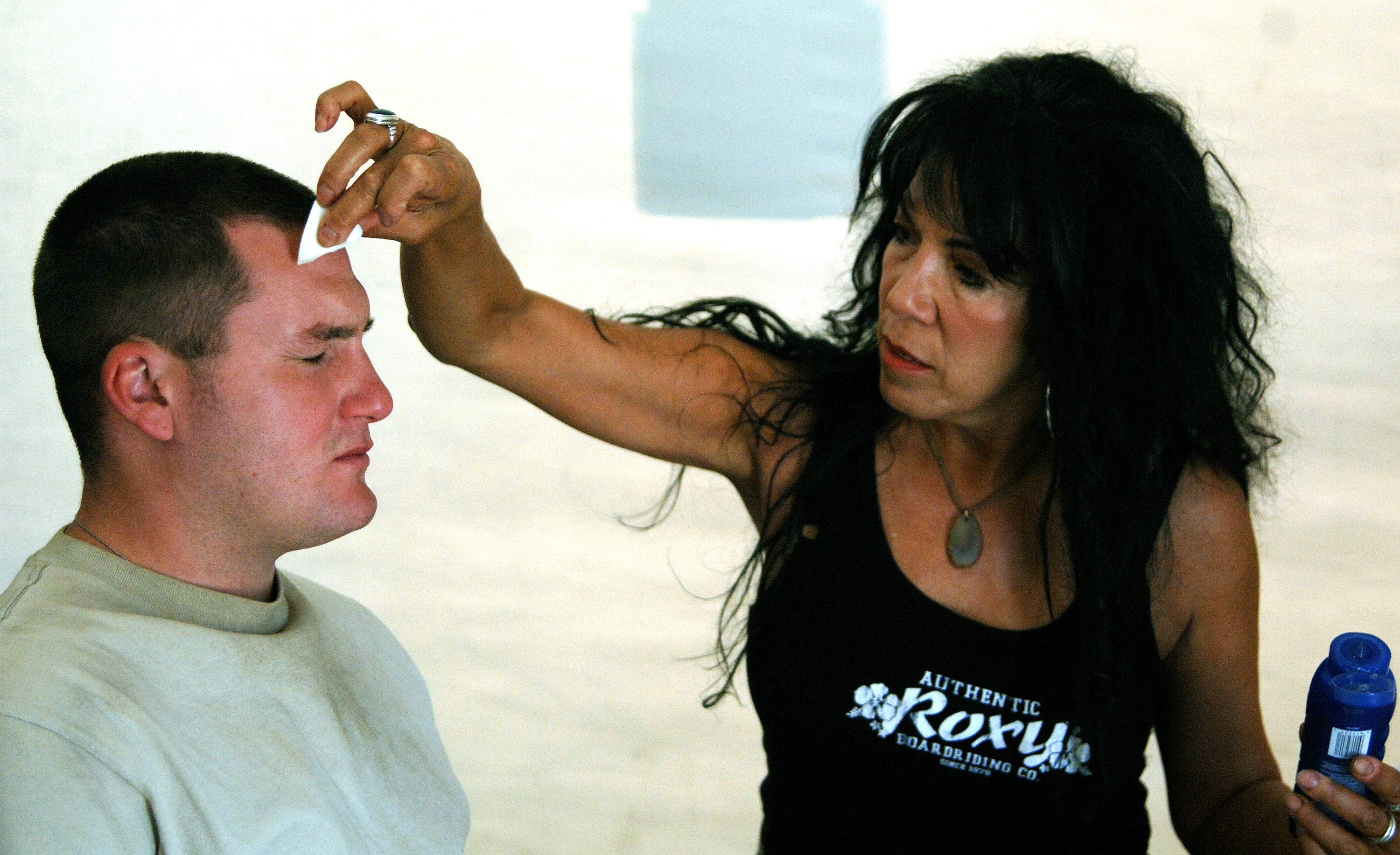 Makeup artist Linda Vallejo applies makeup and sunscreen to Airman 1st Class Joshua Clanton on the set of the movie "Transformers" at Holloman Air Force Base, N.M., on Tuesday, May 30, 2006. The movie is scheduled for release in June 2007. Airman Clanton is with the 49th Mission Support Squadron at Holloman AFB.